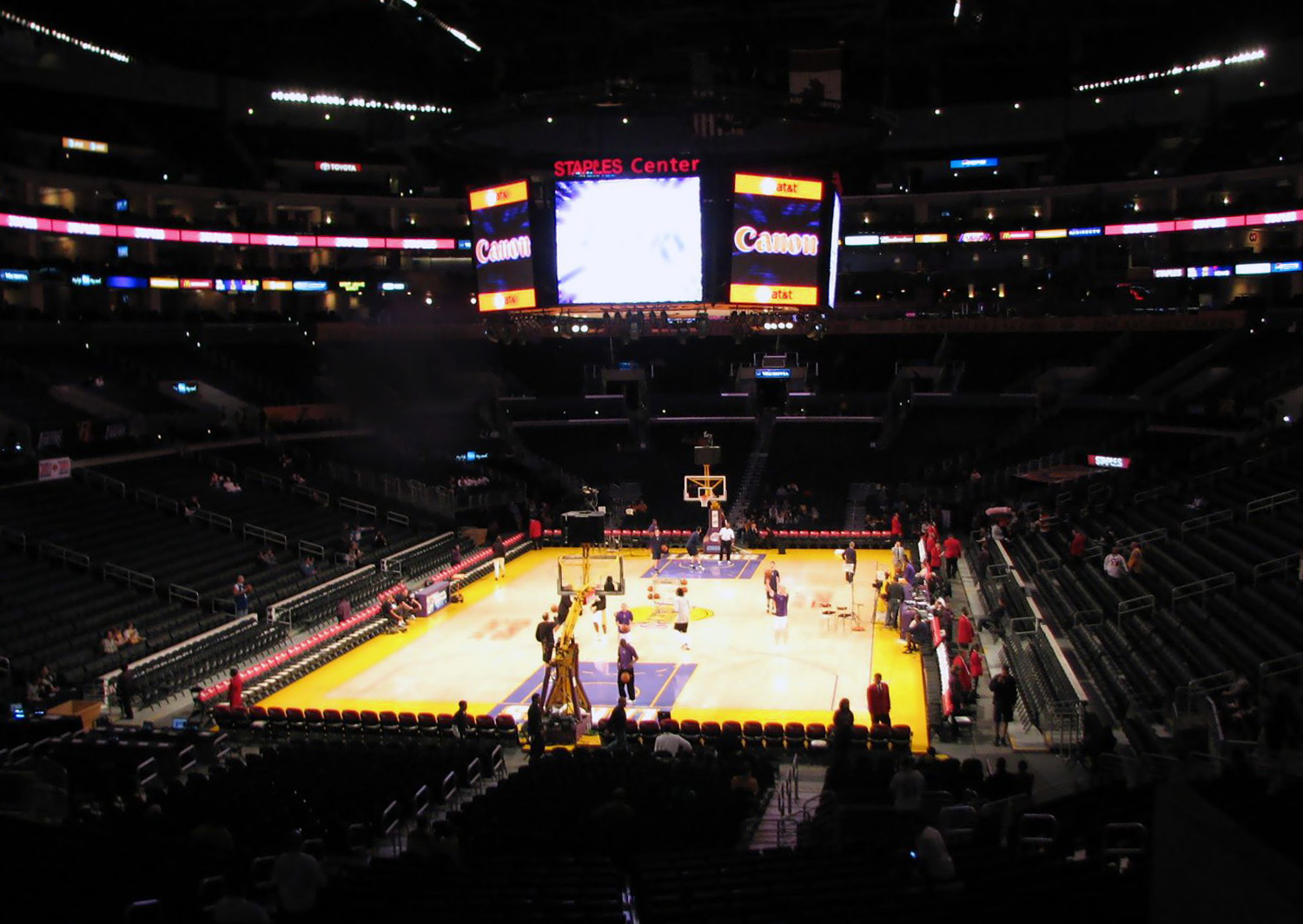 Los Angeles Lakers home court in Staples Center